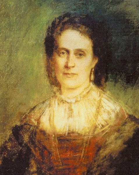 Portrait of Faber du Faur´s wife Marie Benedict painted by Franz von Lenbach. Oil/canvas.